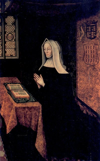 Lady Margaret Beaufort, c. 1500. This is the most famous portrait of Margaret (1443 to 1509), mother of King Henry VII. of England; she kneels in prayer; the room is a superb representation of the typical royal 'closet', or prayer room. The portcullis, the Beauforts' emblem, is visible in the rondelle in the window on the left and in the tapestry on the right. This portrait is held at Cambridge University, which Margaret generously supported during her lifetime. The painting was presented To St John's College in 1598.